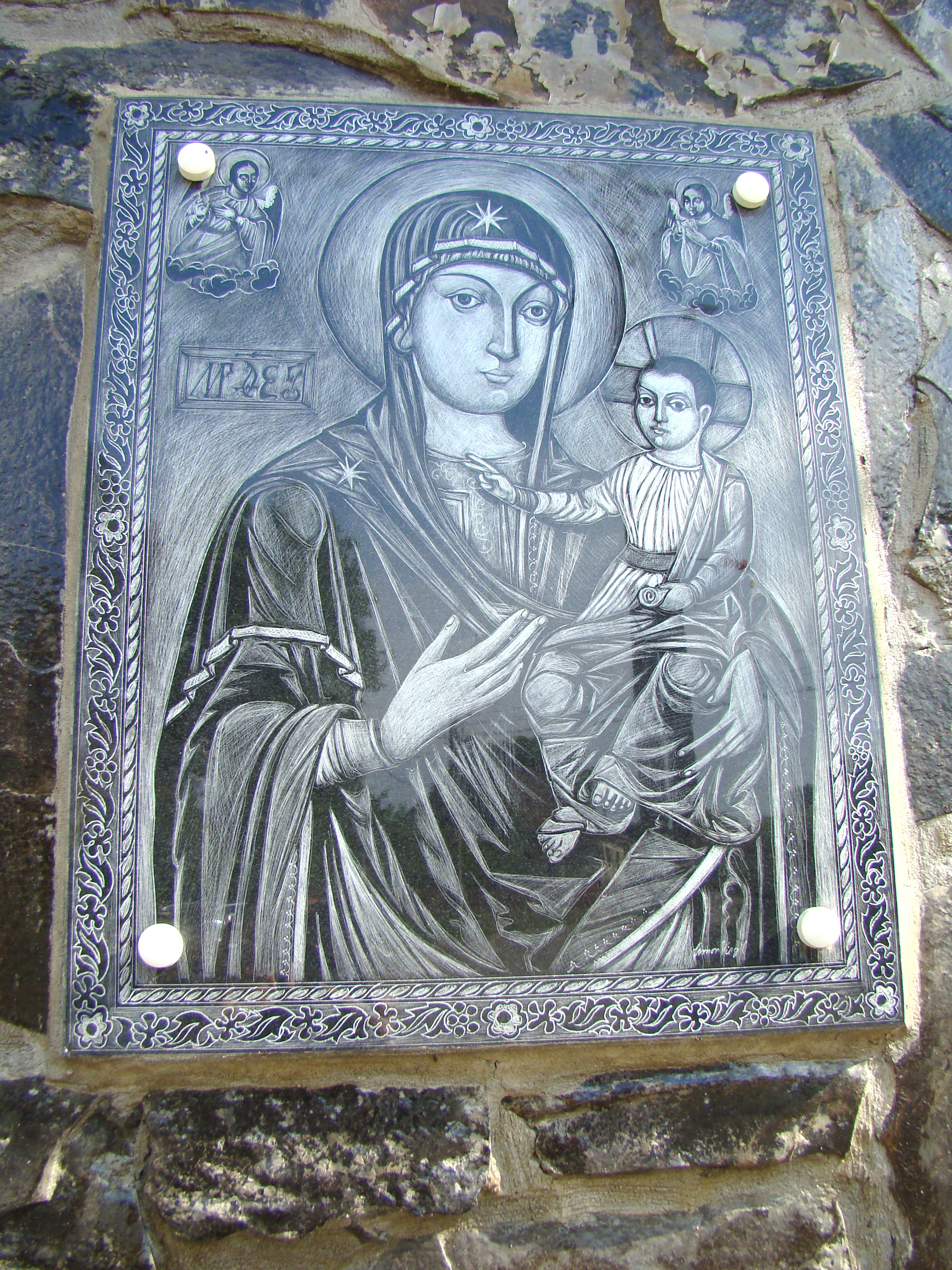 Orthodox church of The Ascension of our Lord in Râpa de Jos, Mureş county, Romania